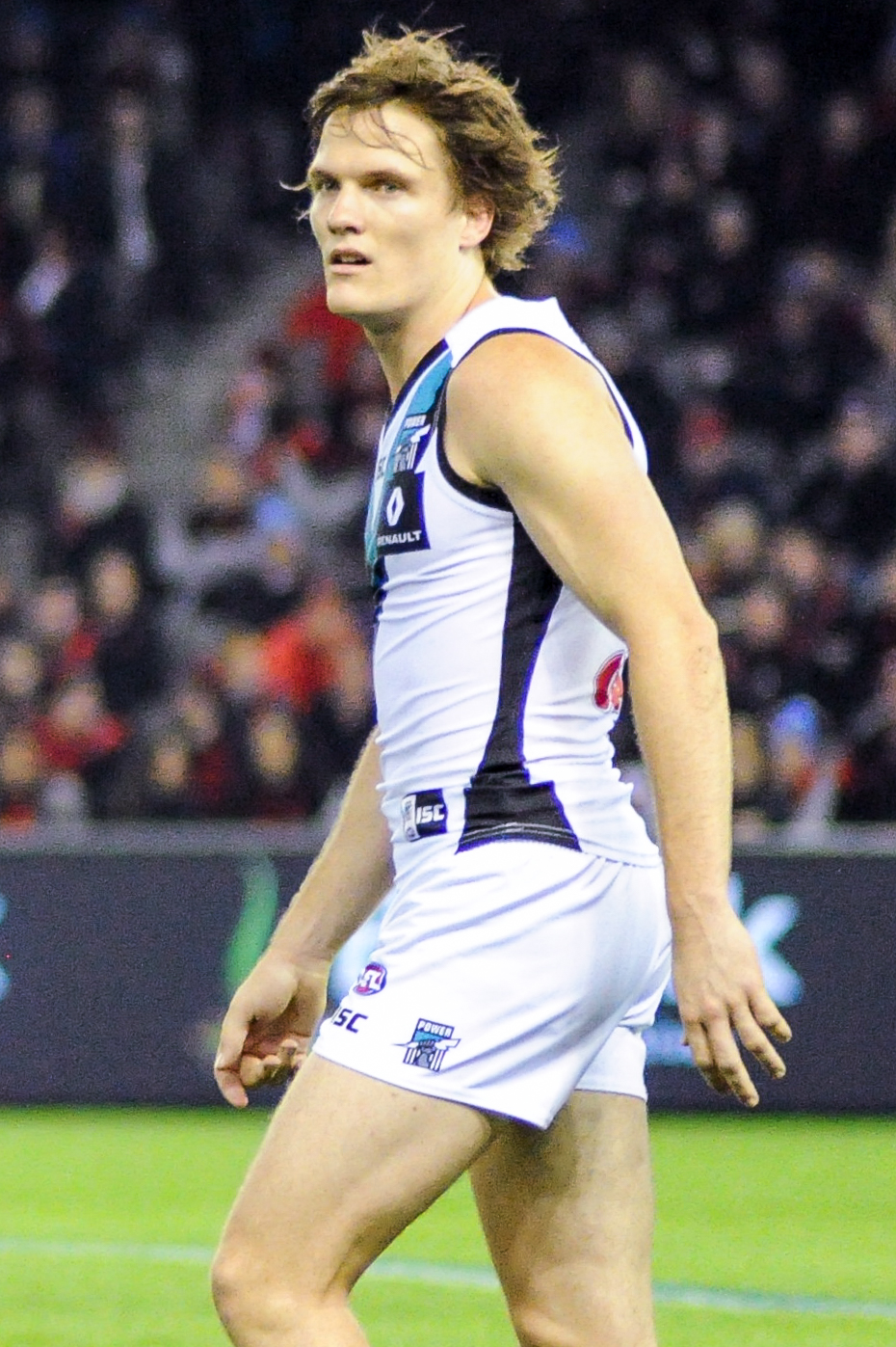 Jared Polec during the AFL round twelve match between Essendon and Port Adelaide on 10 June 2017 at Etihad Stadium in Melbourne, Victoria.